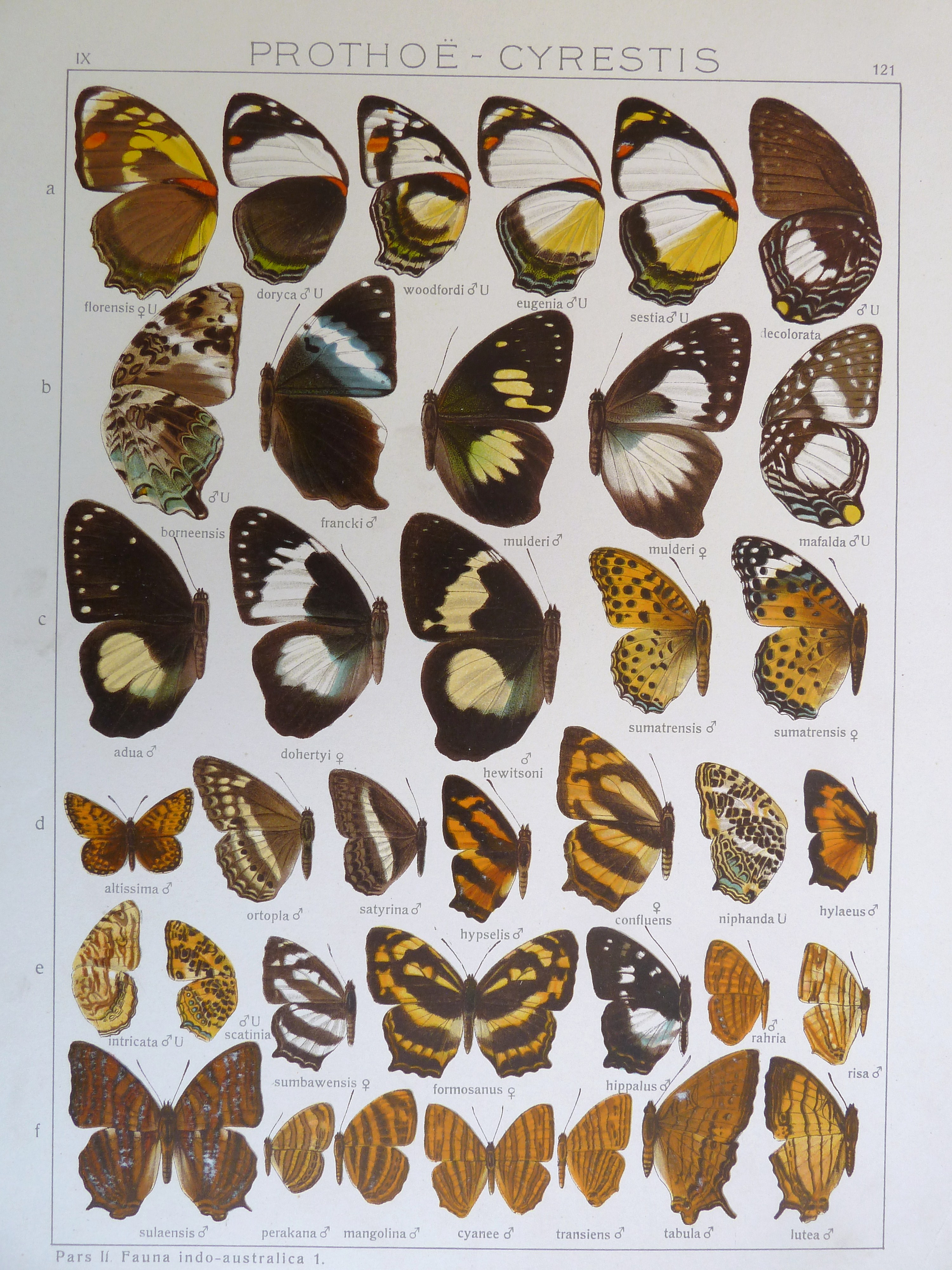 Adalbert Seitz Ed. Die Großschmetterlinge der Erde Band 9: Abt. 2, Die exotischen Großschmetterlinge, Die indo-australischen Tagfalter, [1927] text , 1197 Seiten 177 Tafeln Verlag Alfred Kernen, Stuttgart Taf 121 See The Global Lepidoptera Names Index for valid names Mynes doubledayi florensis Röber, 1903. Mynes doryca Butler, 1873 = Mynes geoffroyi (Guérin-Méneville, 1830) Mynes woodfordi Godman & Salvin, 1888 Mynes geoffroyi eugenius Fruhstorfer, 1909 New Guinea Mynes geoffroyi sestia Fruhstorfer, 1909 Prothoe australis decolorata Fruhstorfer, 1906 Prothoe franck borneensis Fruhstorfer Prothoe franck (Godart, [1824]) Prothoe australis mulderi (Vollenhoven, 1863) Prothoe australis mafalda Fruhstorfer, 1906 adua = Prothoe australis forma Prothoe dohertyi Grose-Smith, 1894 = Prothoe australis hewitsoni Wallace, 1869 Prothoe australis hewitsoni Wallace, 1869 Argyreus hyperbius sumatrensis (Fruhstorfer, 1903) Kuekenthaliella altissima (Elwes, 1882) Algia fasciata ortopia (Fruhstorfer, 1912) Algia satyrina (C. & R. Felder, [1867]) Symbrenthia hypselis (Godart, [1824] Symbrenthia hippoclus confluens Fruhstorfer, 1897 Symbrenthia niphanda Moore, 1872 Symbrenthia hippoclus hylaeus (Wallace, 1869) Symbrenthia intricata Fruhstorfer, 1897 Symbrenthia brabira scatinia Fruhstorfer, 1908 Symbrenthia lilaea formosanus Fruhstorfer, 1908 Symbrenthia hippalus (C. & R. Felder, [1867]) Chersonesia rahria (Moore, [1858]) Cyrestis thyonneus sulaensis Staudinger, 1896? perakana Chersonesia rahria mangolina Fruhstorfer, 1899 Chersonesia risa cyanee (de Nicéville, 1893) Chersonesia risa transiens (Martin, 1903) Cyrestis tabula de Nicéville, 1883 Nicobar Islands Cyrestis lutea (Zinken, 1831)